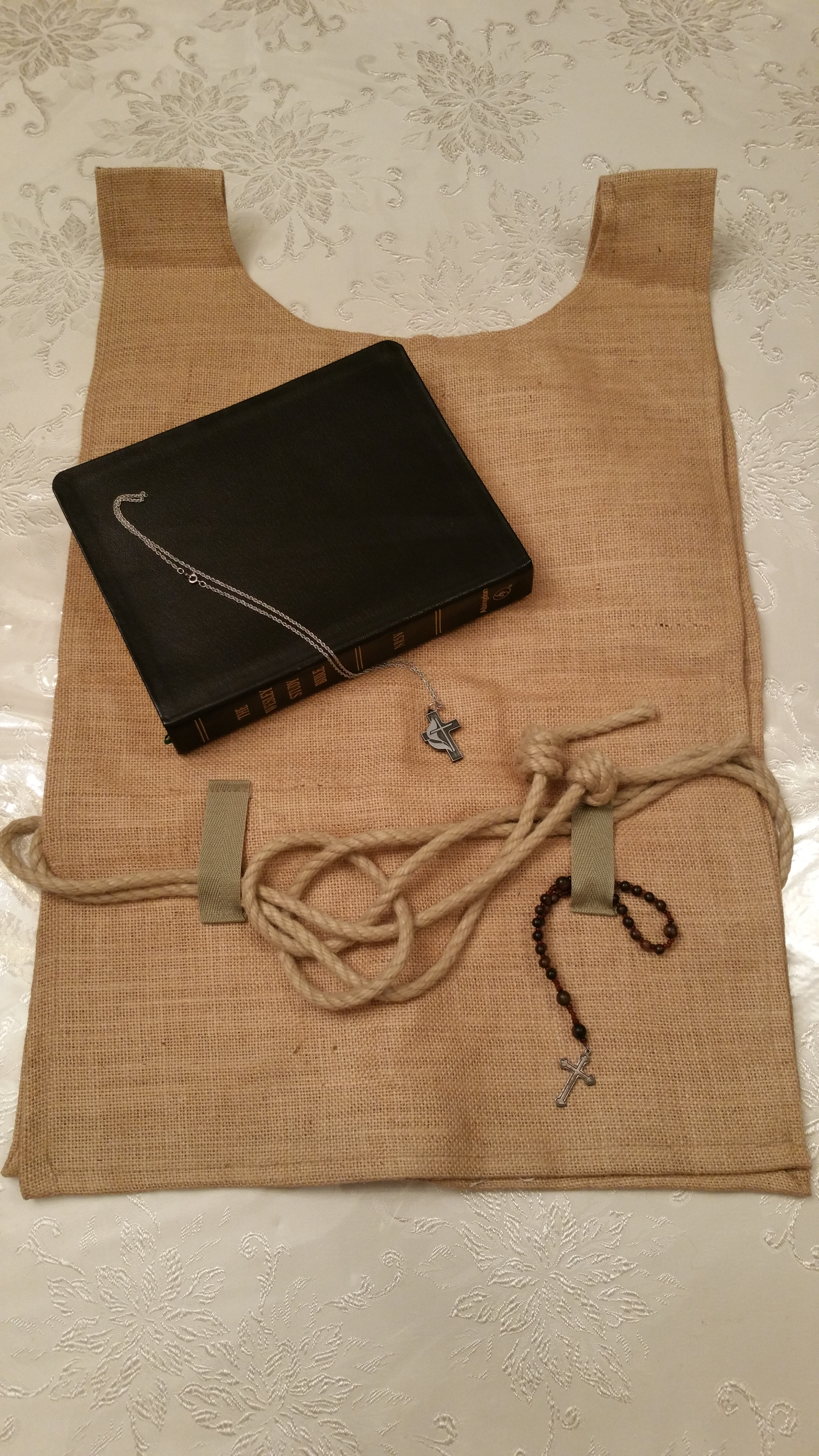 The image depicts a hairshirt belonging to a Methodist Christian brother belonging to a religious order. Lying on the hairshirt are his Wesley Study Bible and confirmation cross necklace. A set of Protestant prayer beads is hanging off of one of the belt loops used to hold the girdle. I clicked this picture on April 8, 2017.